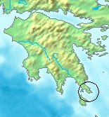 Topography Cape Maleas. This card is a selection from the freely available topographic maps of Wikipedia (international).